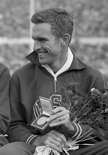 1952 Press Photo Walt Davis and Lt. Ken Wiesner with Olympic Medals High Jump